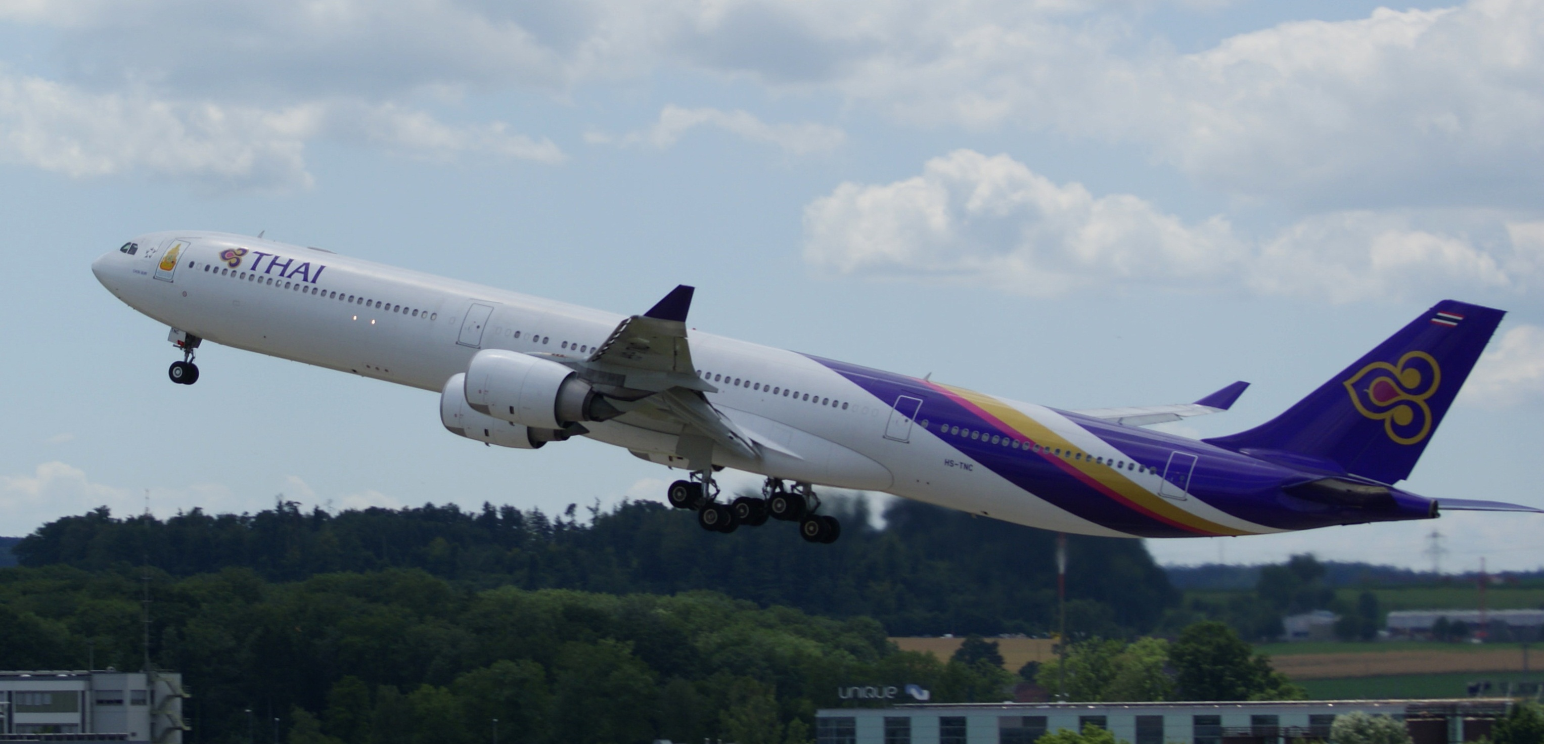 An A340-600 of Thai